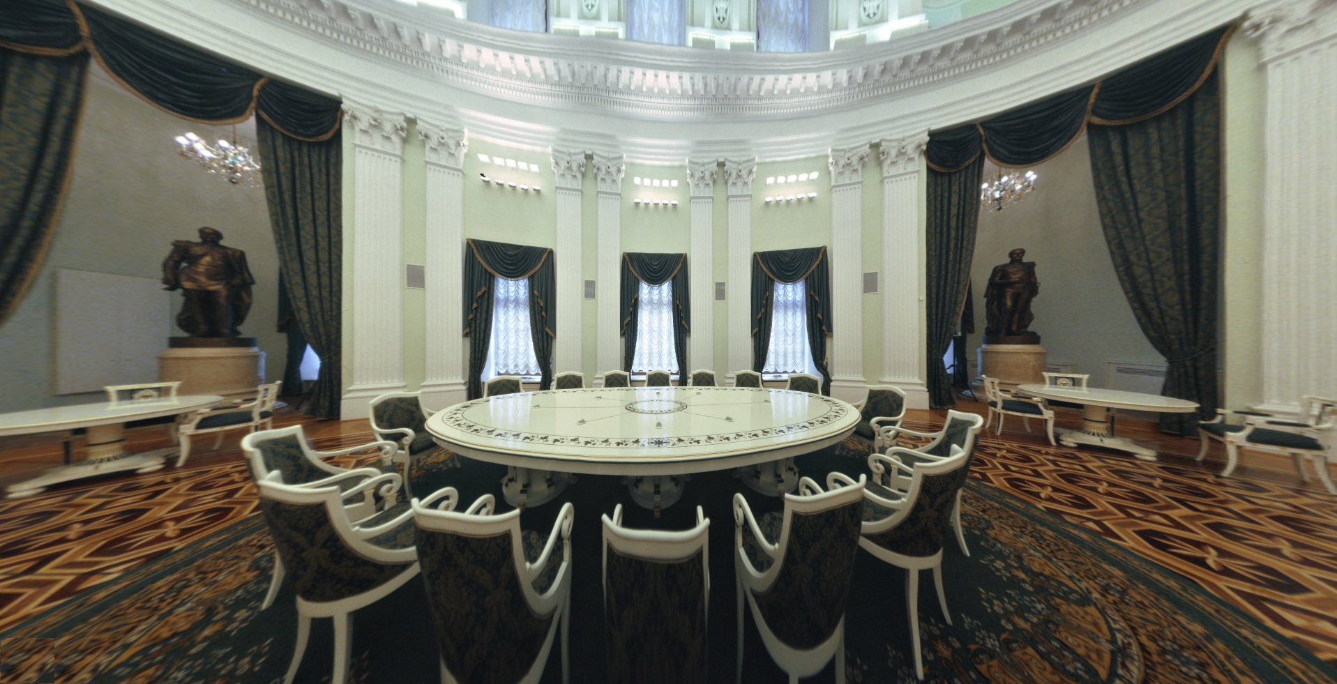 Executive cabinet. Senate Palace. Moscow Kremlin